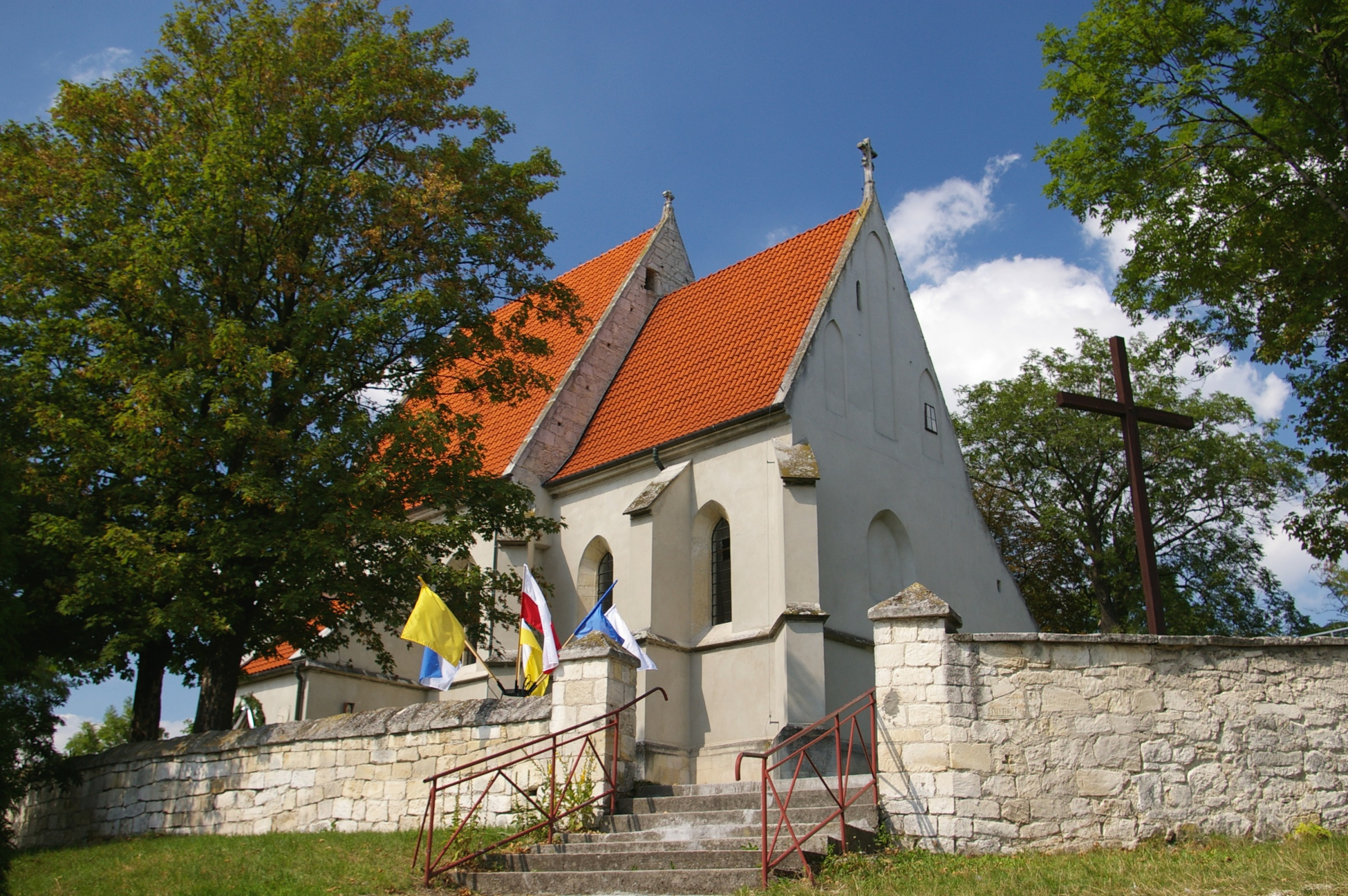 Gothic church of St. Bartholomew in Chotel Czerwony, Poland